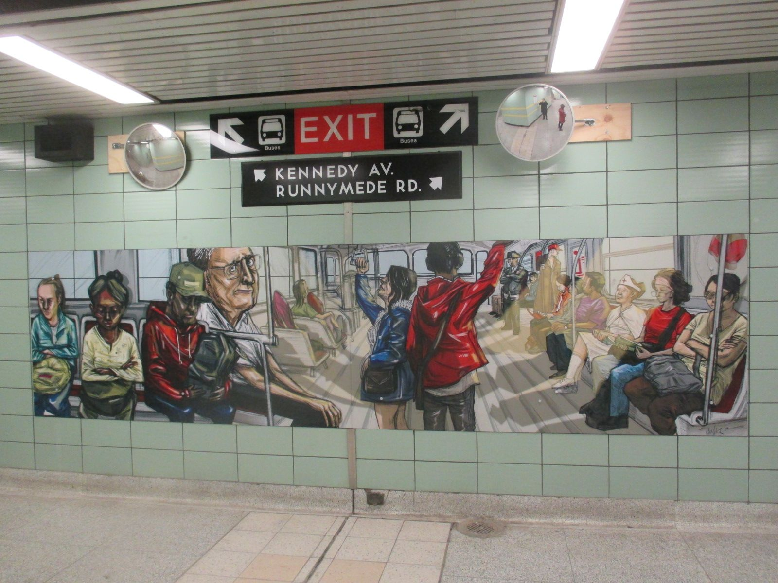 Artwork at Runnymede station, mezzanine level, titled "Anonymous Somebody" by artist Elicser Elliot